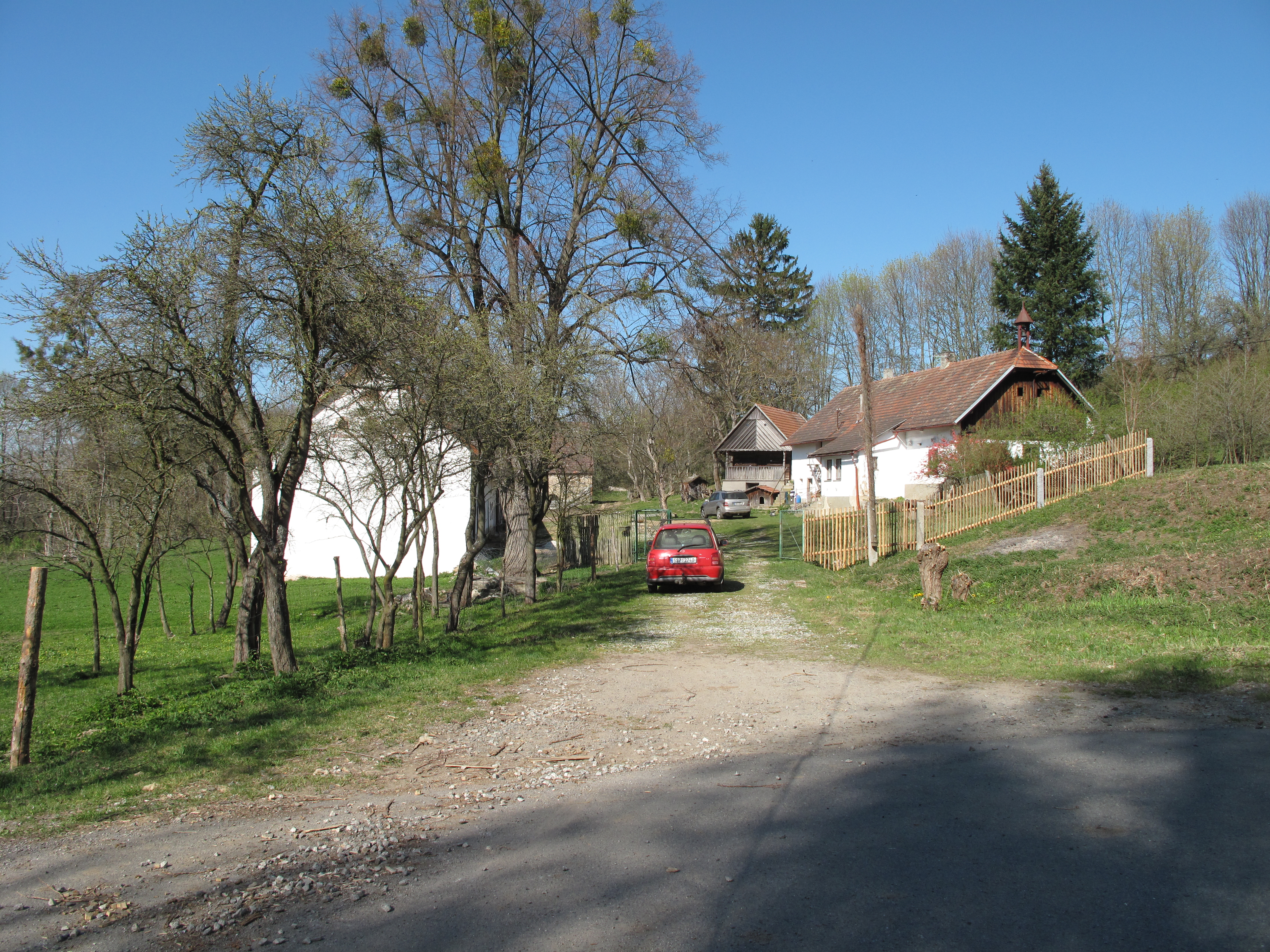 Houses in Včelákova Lhota.